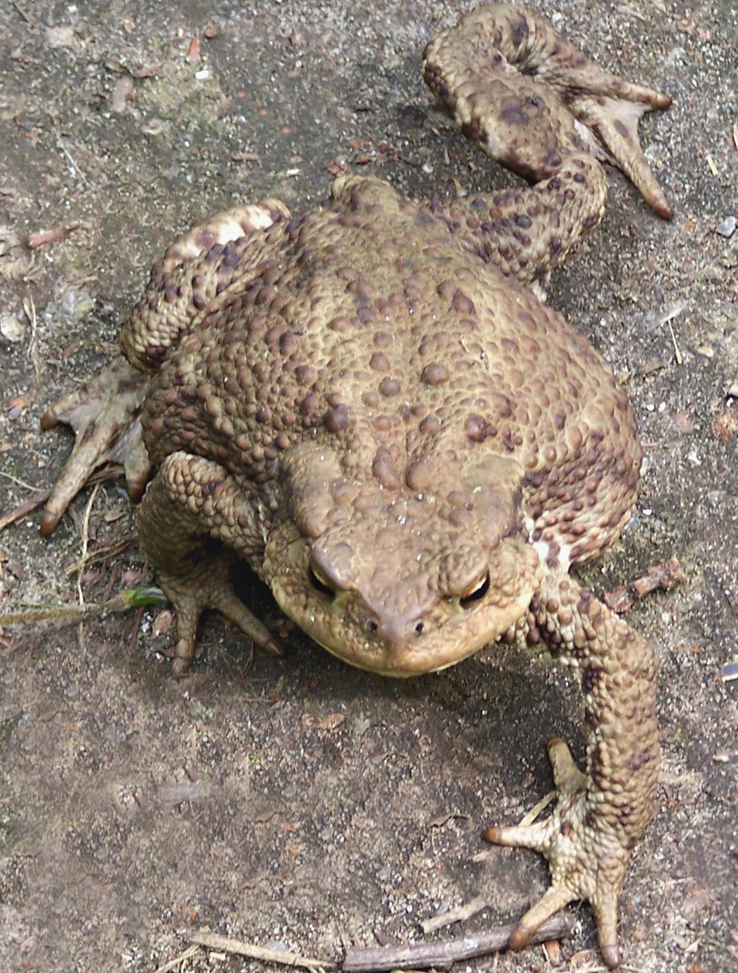 Common toad walking